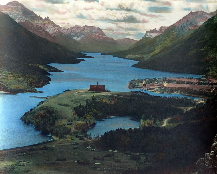 1946 20.3 cm x 25.4 cm Colour retouched photograph To obtain high quality and larger reproductions of this image please visit the Galt Museum & Archives website: and include thIs number in your request: P19941013007